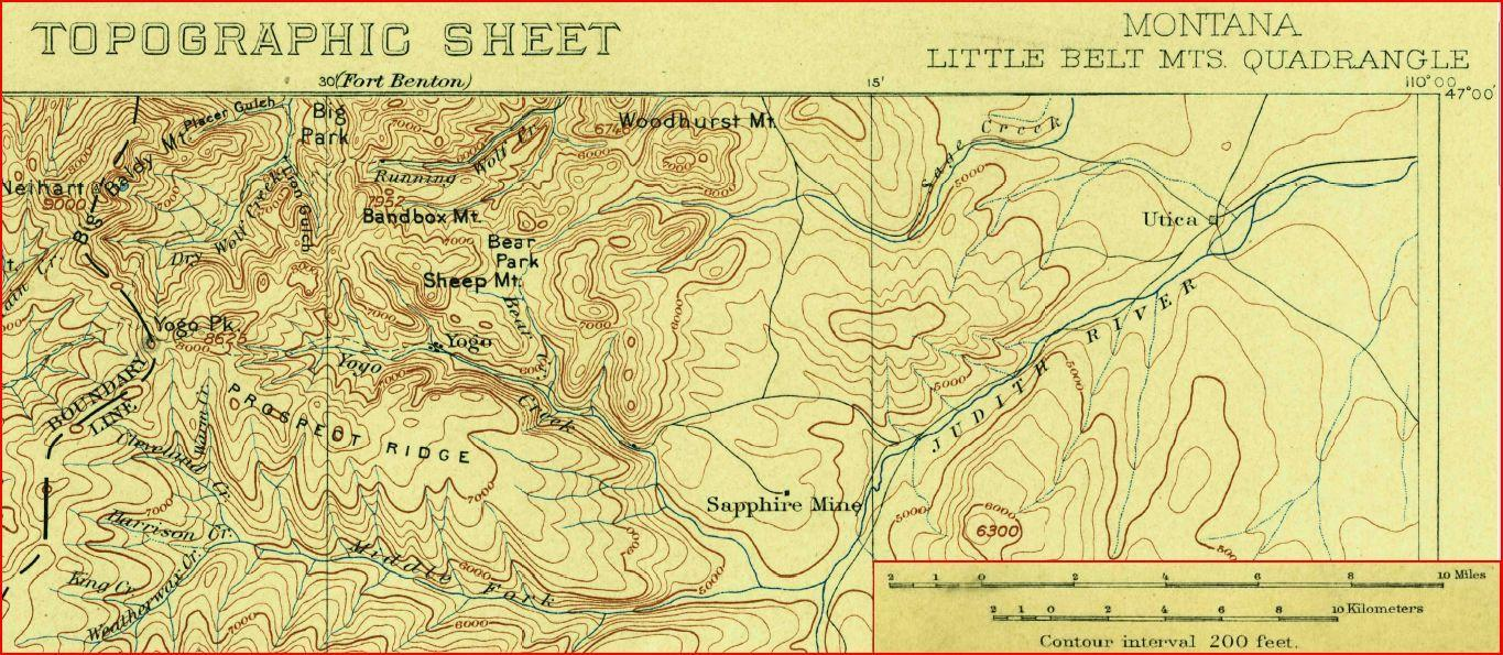 NE portion of Little Belt Mountain Topographic Map showing Yogo sapphire mine location